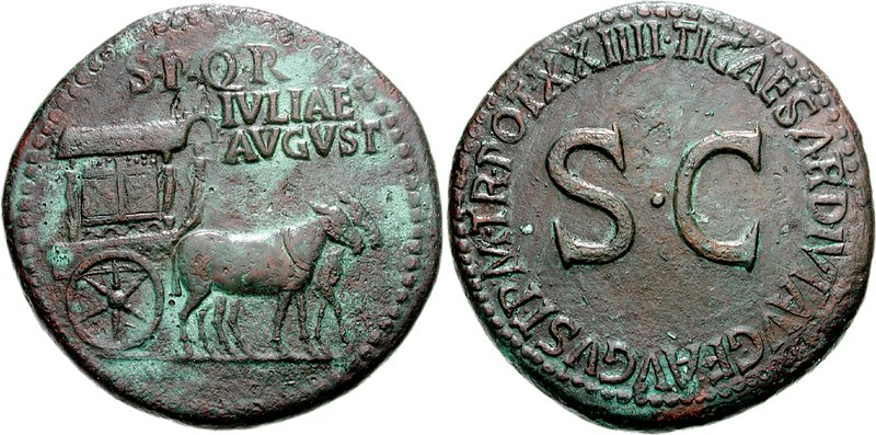 Tiberius. AD 14-37. Æ Sestertius (26.23 g, 8h). Commemorative struck for Livia, wife of Augustus, mother of Tiberius. Rome mint. Struck 22-23 AD. Ornamented carpentum drawn right by pair of mules / Legend TI. CAESAR. DIVI. AVG. F. AVGVST. P. M. TR. POT.XXIIII. around large S C. RIC I 51 (Tiberius). VF, brown and green patina, lightly smoothed and lacquered. (also see )